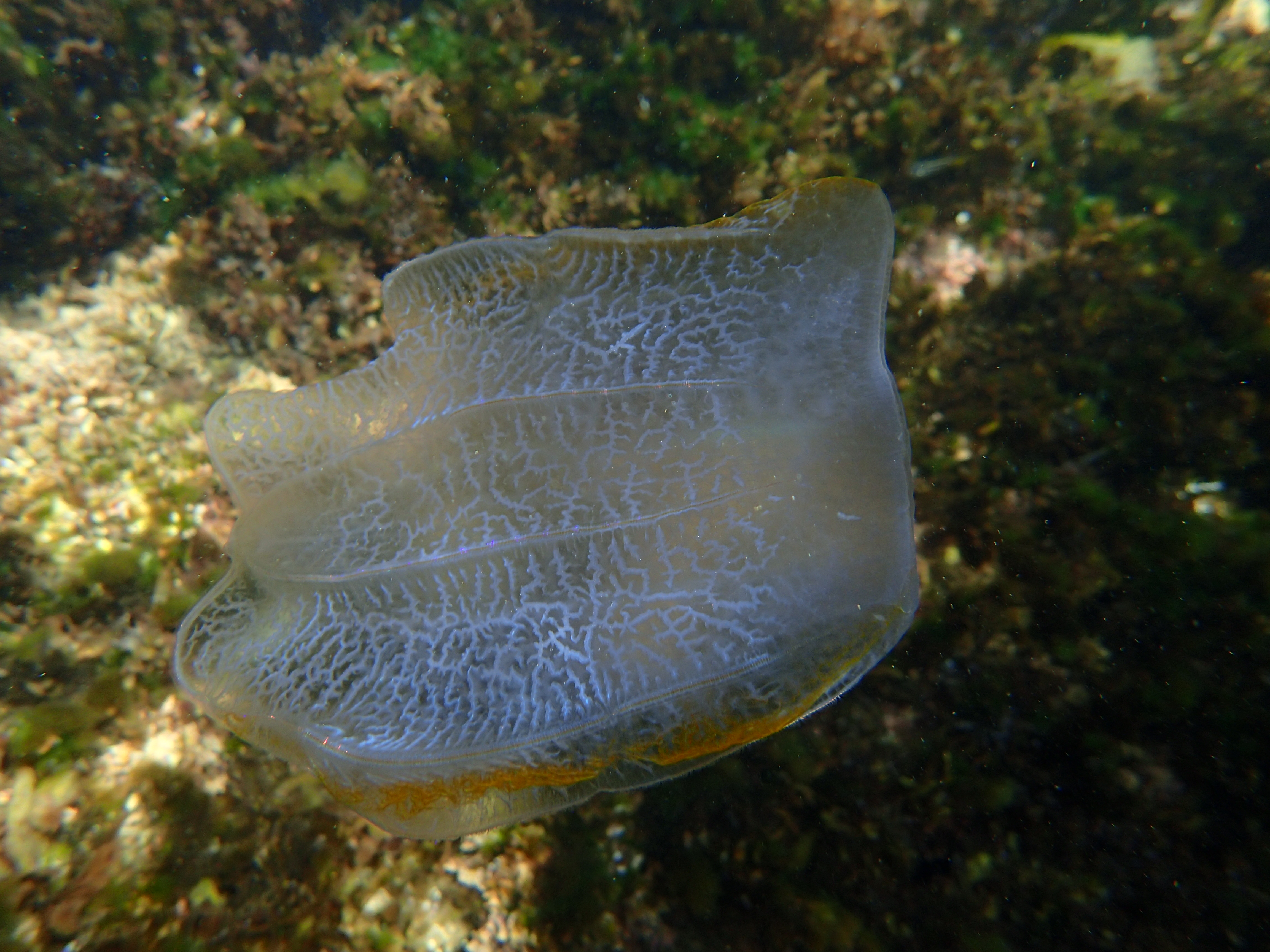 Photographed at Shelly Beach - Sydney Australia Close to the shoreline